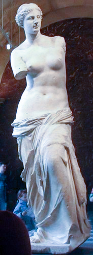 Venus de Milo. Louvre Museum.